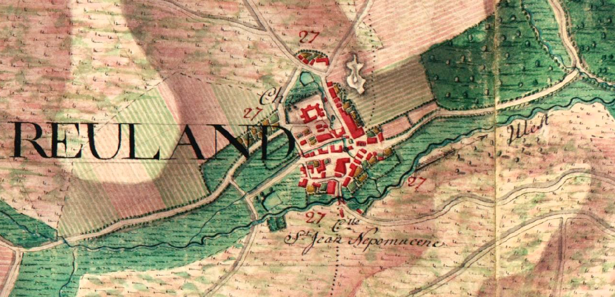 Burg-Reuland, Belgium, on the map of Ferraris.